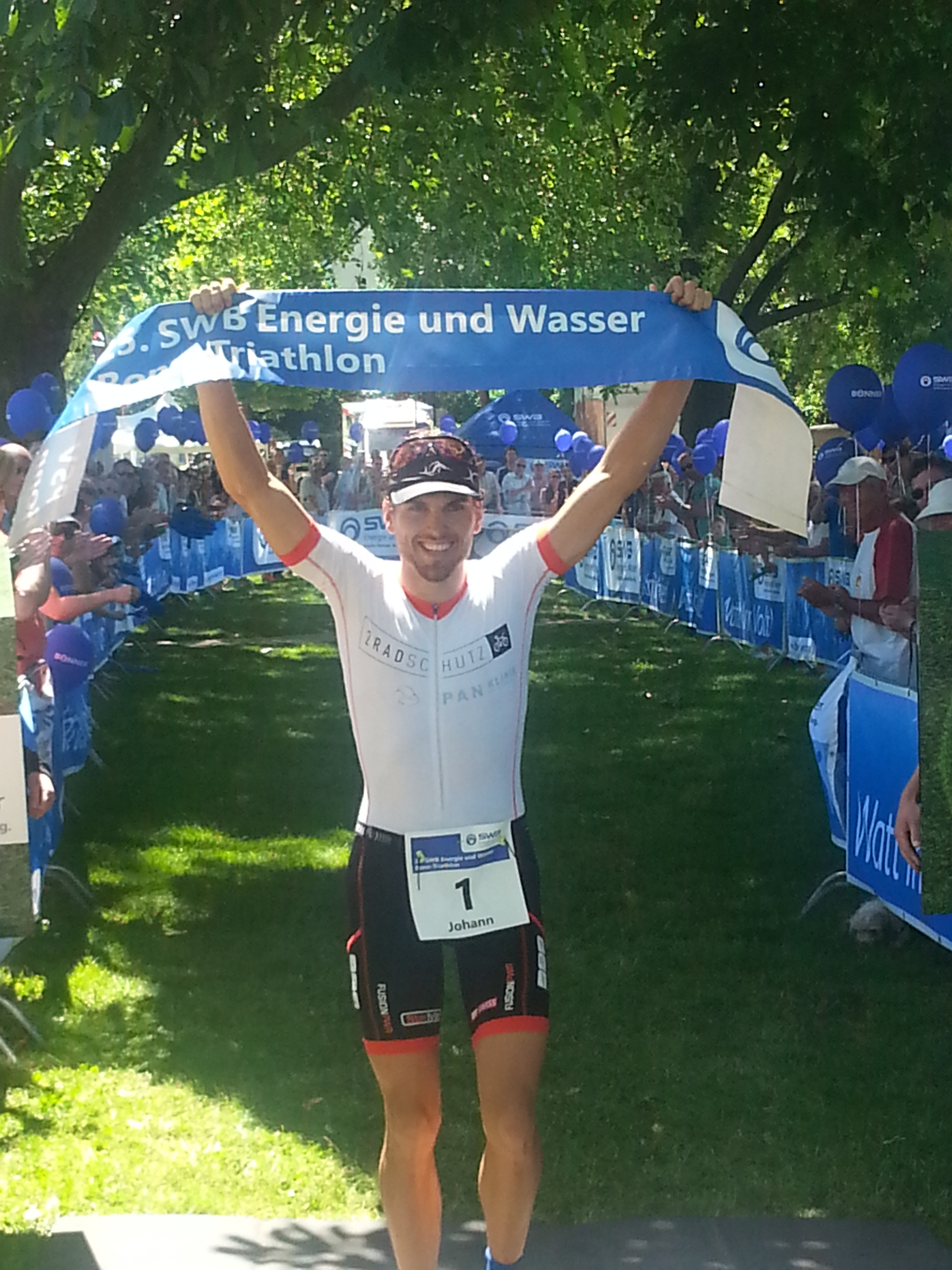 Johann Ackermann claims victory at 2015 Bonn Triathlon